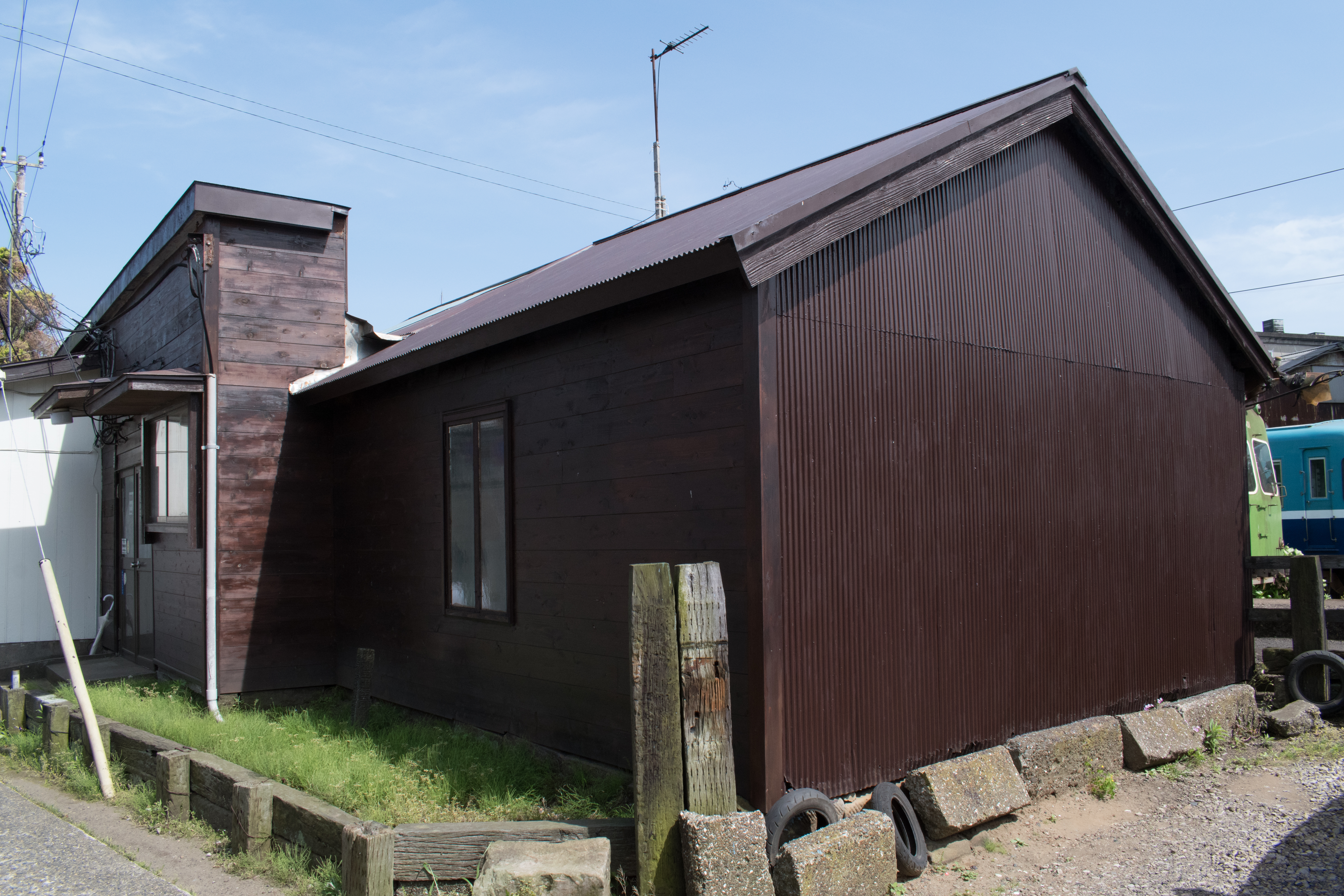 Head office building and Nakanochō Station of the Chōshi Electric Railway Ltd. in Chōshi City, Japan.